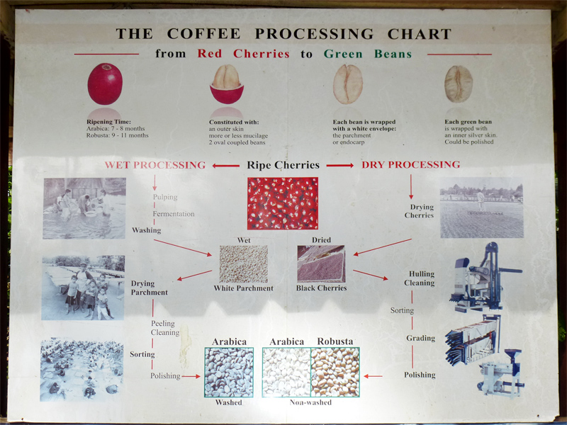 Sinouk Coffee Resort, Bolaven Plateau, Champasak Province, Laos.